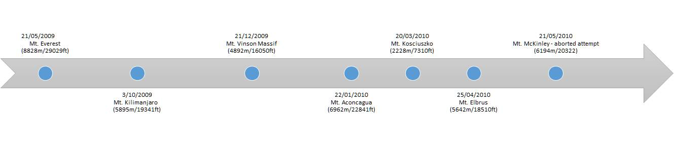 created using summit dates